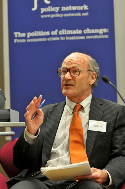 Paul Ekins (425x640 px, 80,215 bytes)BreakOut-9881